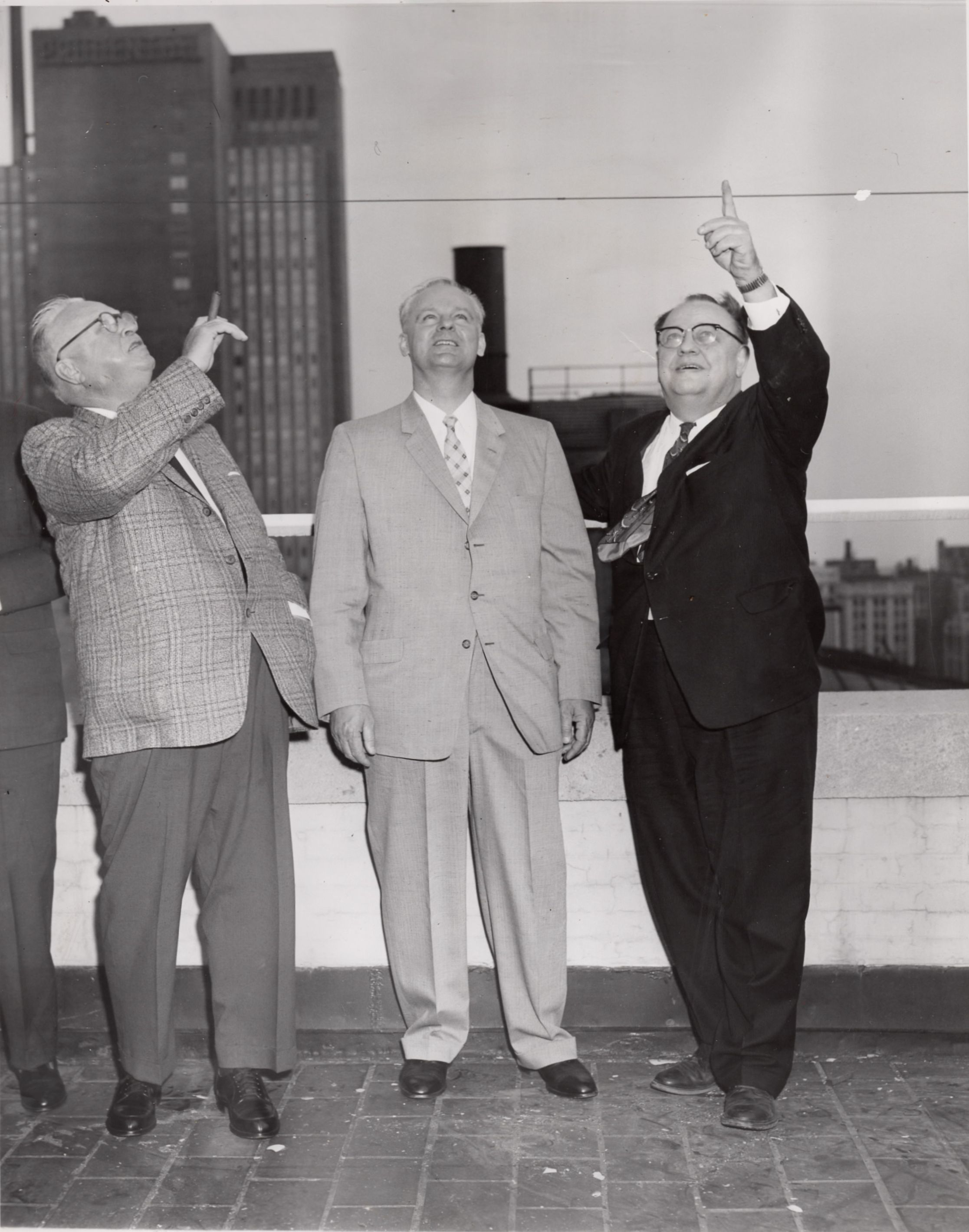 Roy A. Roberts, president of the Kansas City Star, USSR Ambassaoor Mikhail Menshikov, and Chicago Sun-Times executive editor Milburn Pete Akers, searching the cloudy Chicago sky for a glimpse of Sputnik 3 on the evening of May 17, 1958. Location: Tavern Club, 333 N. Michigan Ave., Chicago, Illinois, USA. (Akers would later become president of Shimer College.)